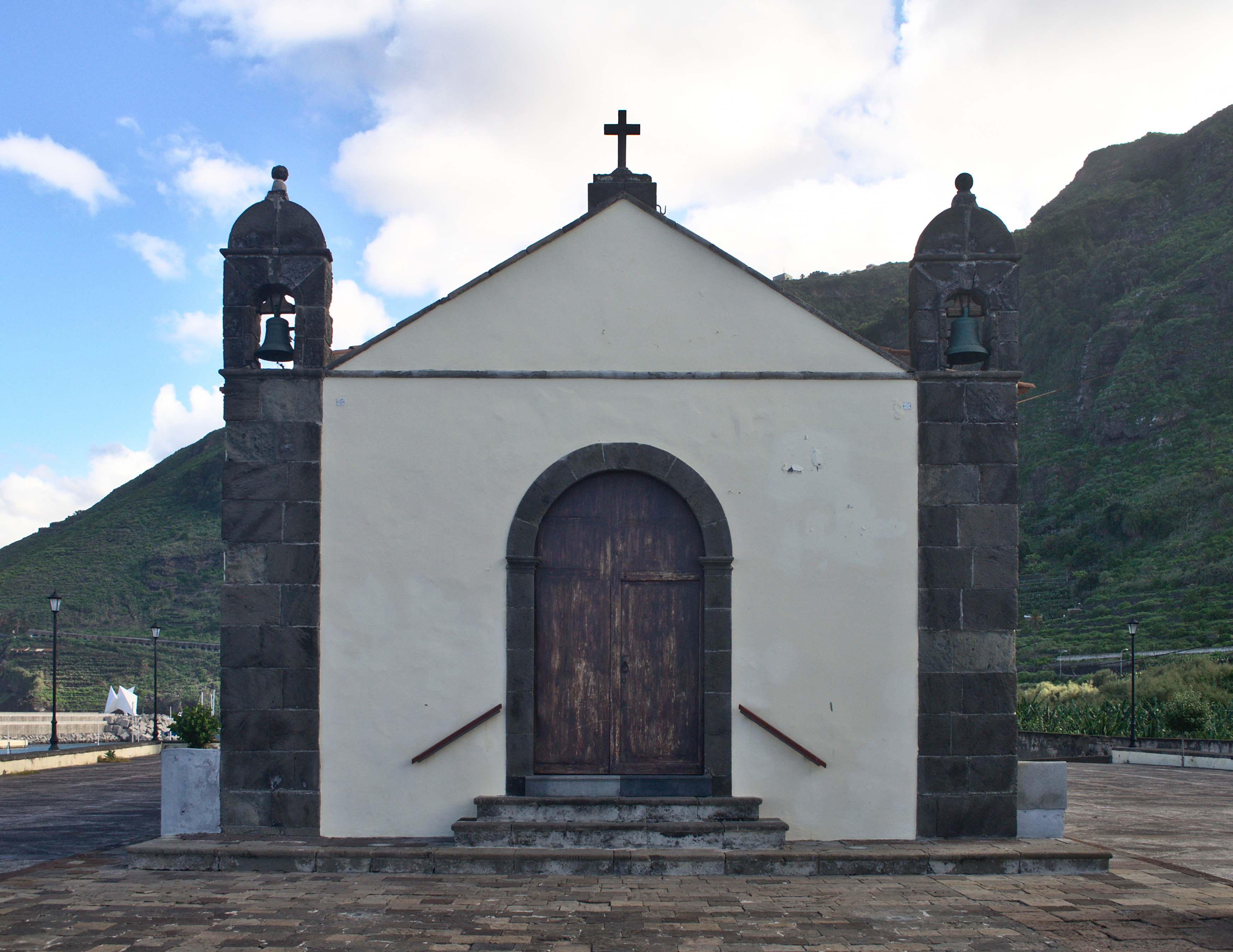 Ermita de San Roque, Garachico, Tenerife